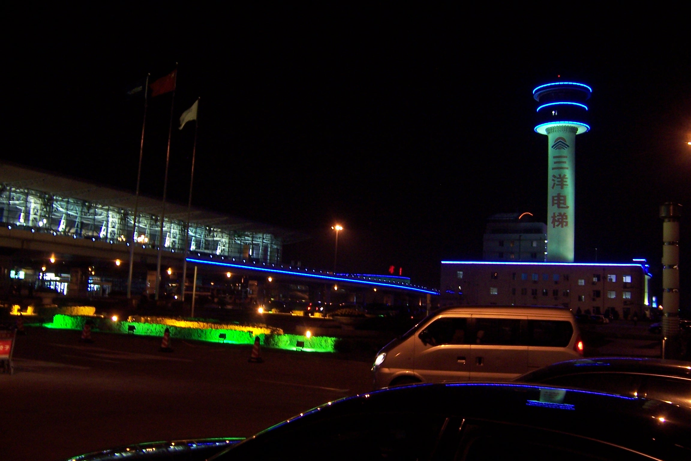 Shenyang airport at night. Taken by me, 15 May 2006.